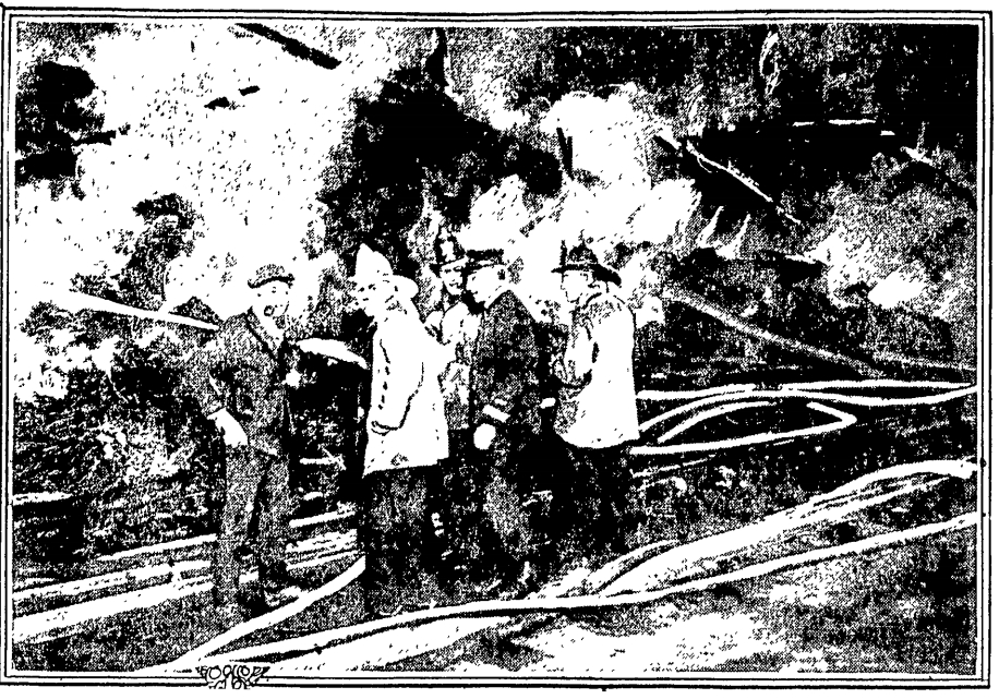 This is a screen grab from a microfilmed copy of the Los Angeles Times for March 18, 1921, showing firemen at a spectacular blaze that destroyed the warehouse of the Pacific Wood and Coal Company on Seventh Street at the Santa Fe tracks, in the Wholesale District. Other information